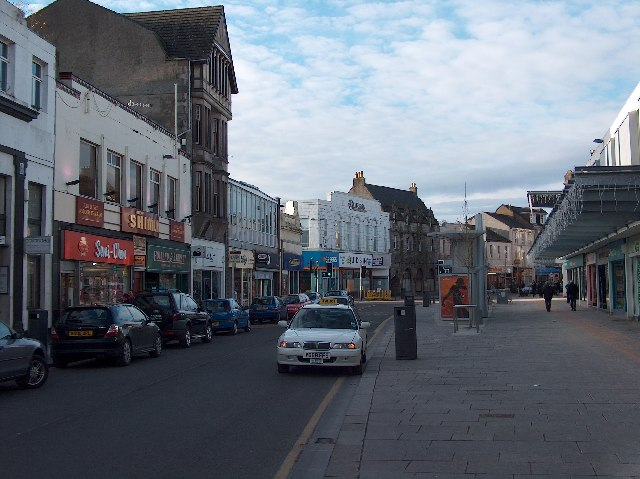 Dumbarton High Street.